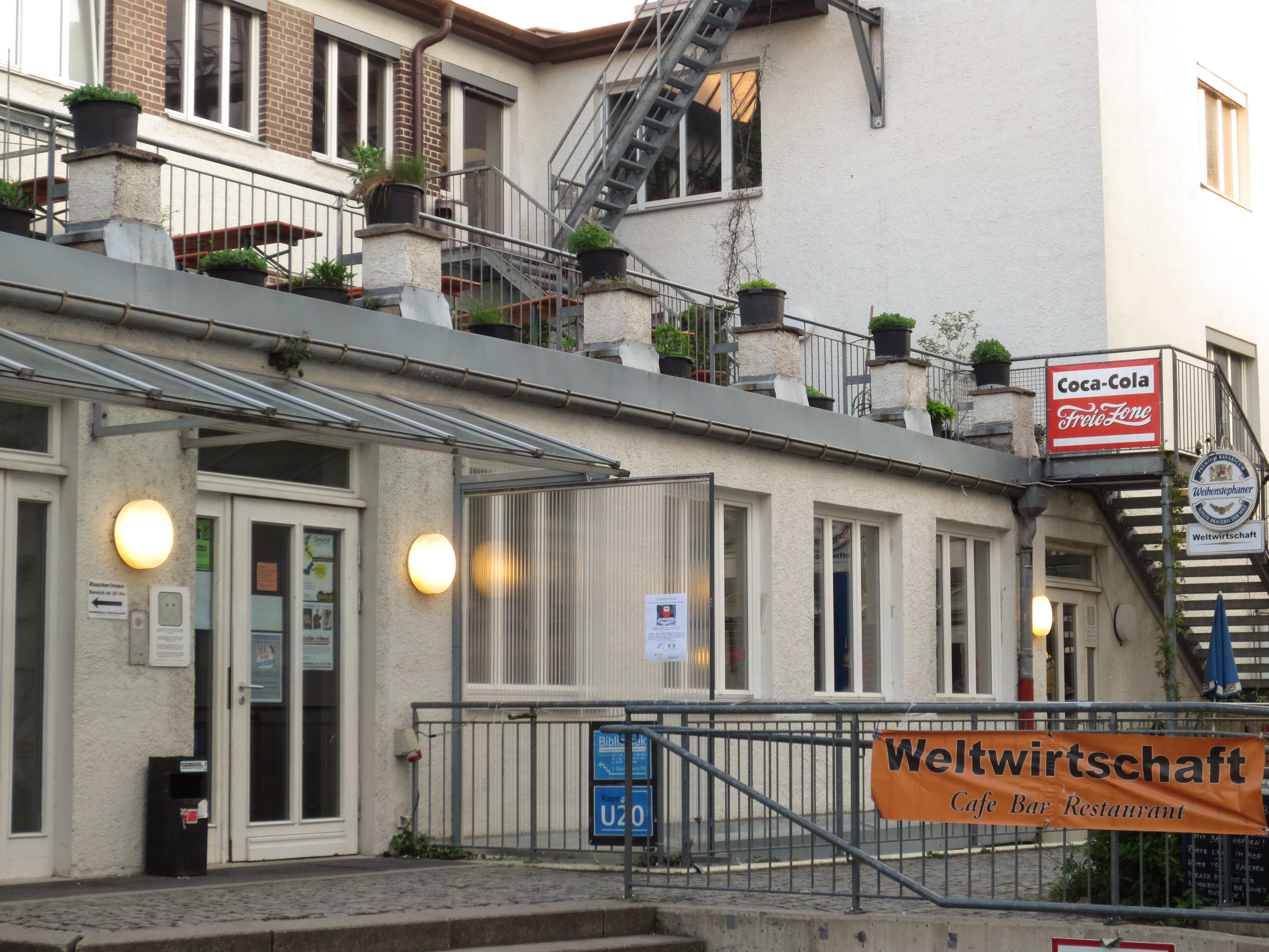 The Eine Welt Haus in Munich at Ludwigsvorstadt. The Entrance